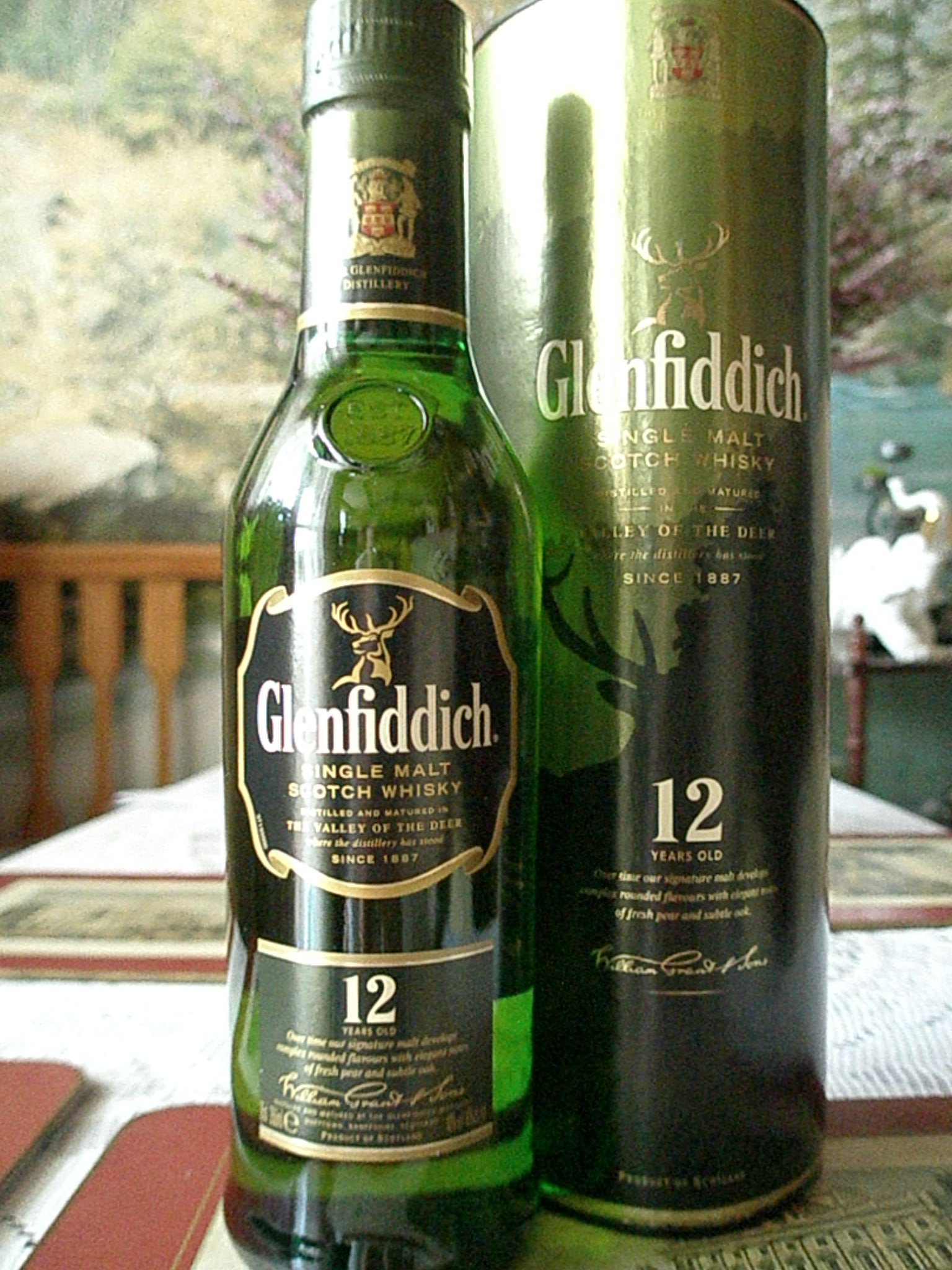 Bottle of Glenfiddich 12yo